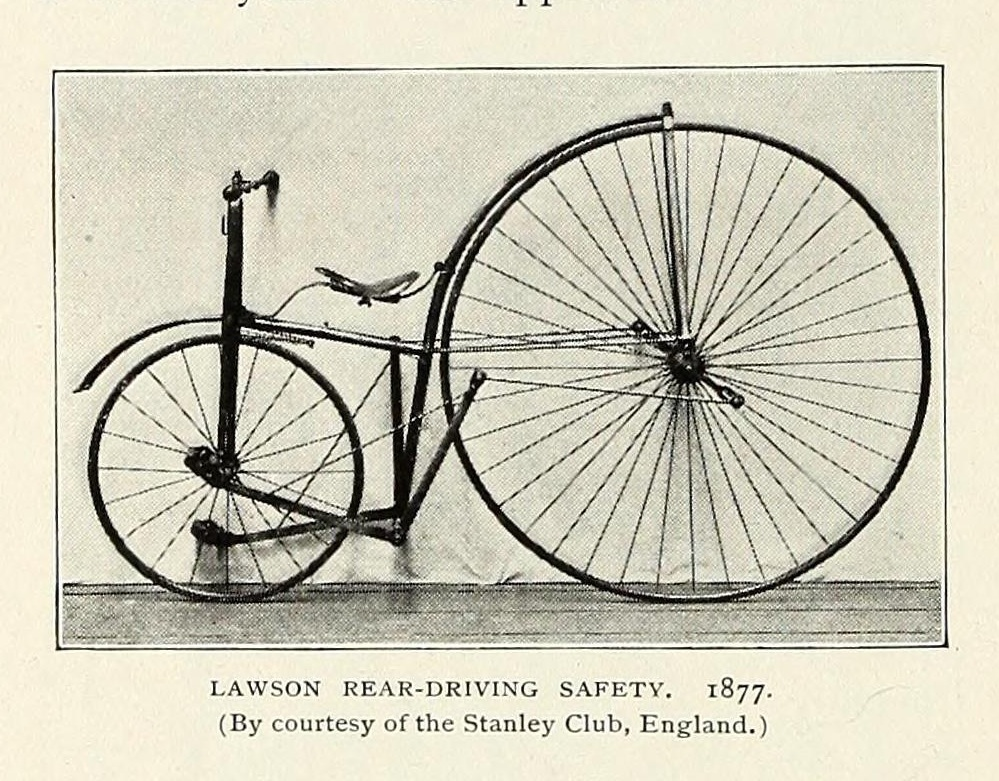 Images of bicycle designs by Harry John Lawson